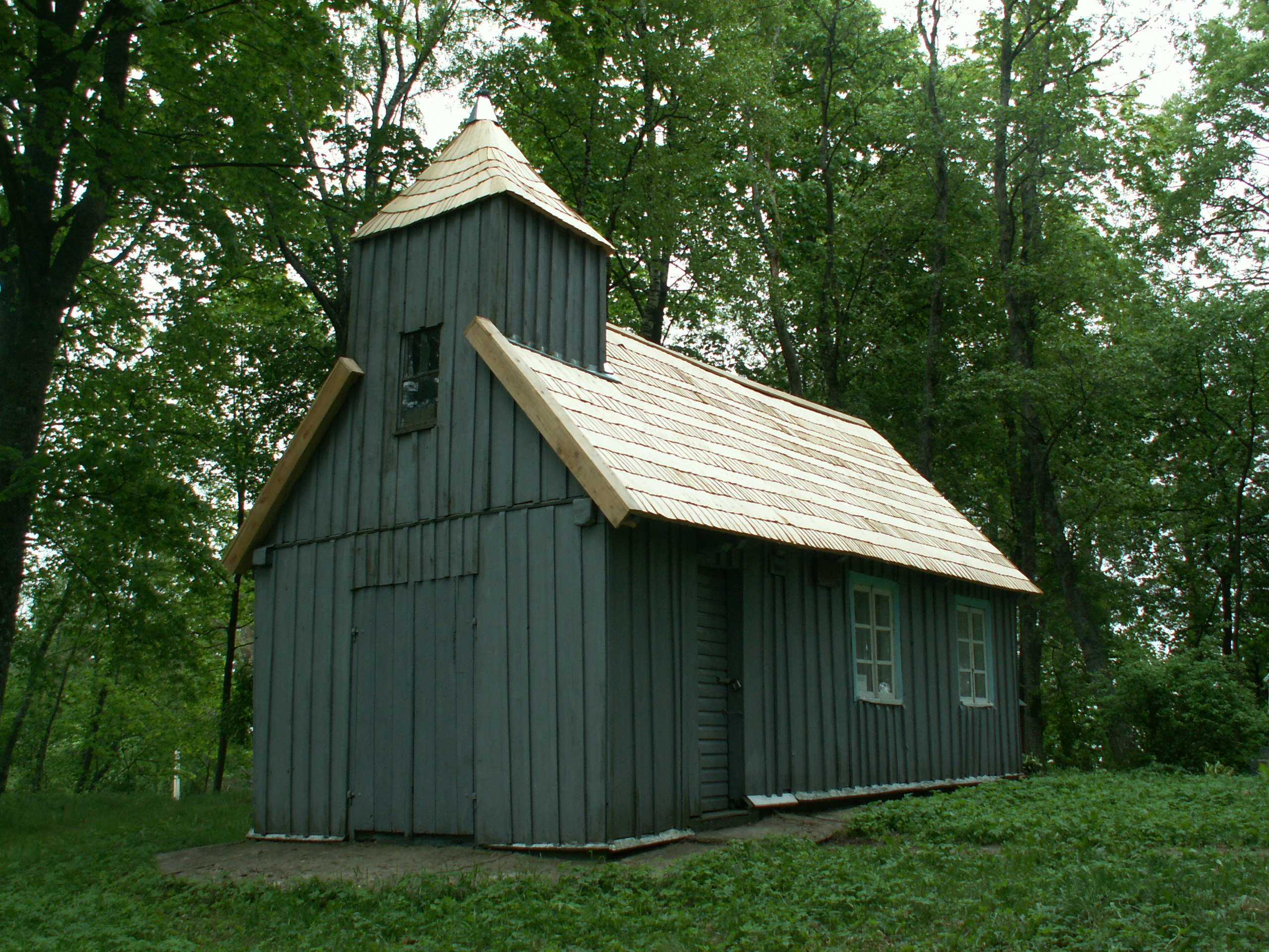 Naujoji Įpiltis, Kretinga district, LithuaniaLietuvių: Naujosios Įpilties Alkos kalno koplyčia, Kretingos rajonas, Lietuva